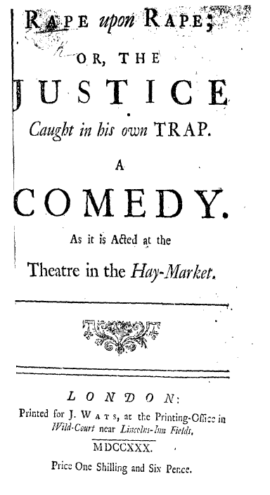 Fielding, Henry. Rape upon rape; or, the justice caught in his own trap. A comedy. As it is acted at the Theatre in the Hay-Market. London: Printed for J. Watts, 1730.